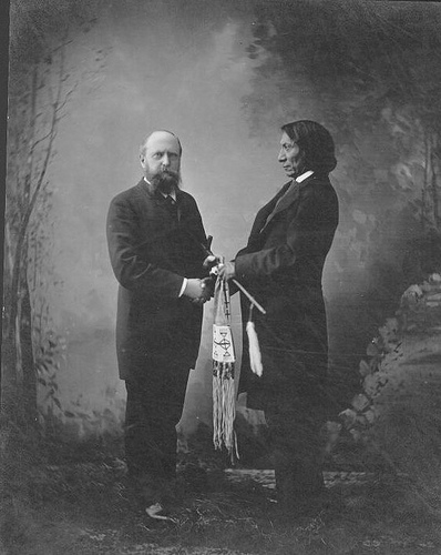 "Othniel C. Marsh and Red Cloud in New Haven, Connecticut," black-and-white photograph of Yale paleontologist Othniel Charles Marsh with the Indian chief 'Red Cloud' in New Haven, Connecticut. Image courtesy of the Yale University Manuscripts & Archives Digital Images Database. Retouched by MarmadukePercy.